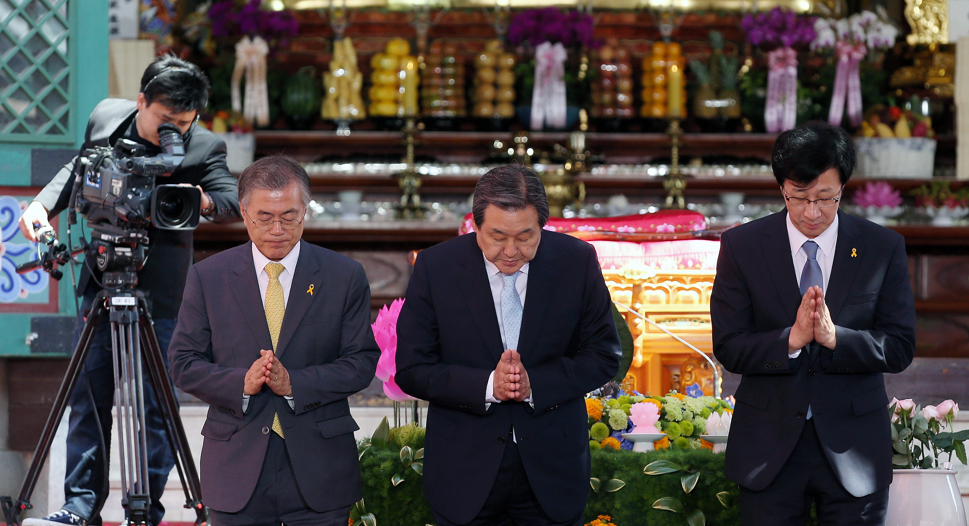 Moon Jae-in (left), Kim Moo-sung (centre), and Cheon Ho-sun (right) at the Buddha's Birthday ceremony in South Korea.